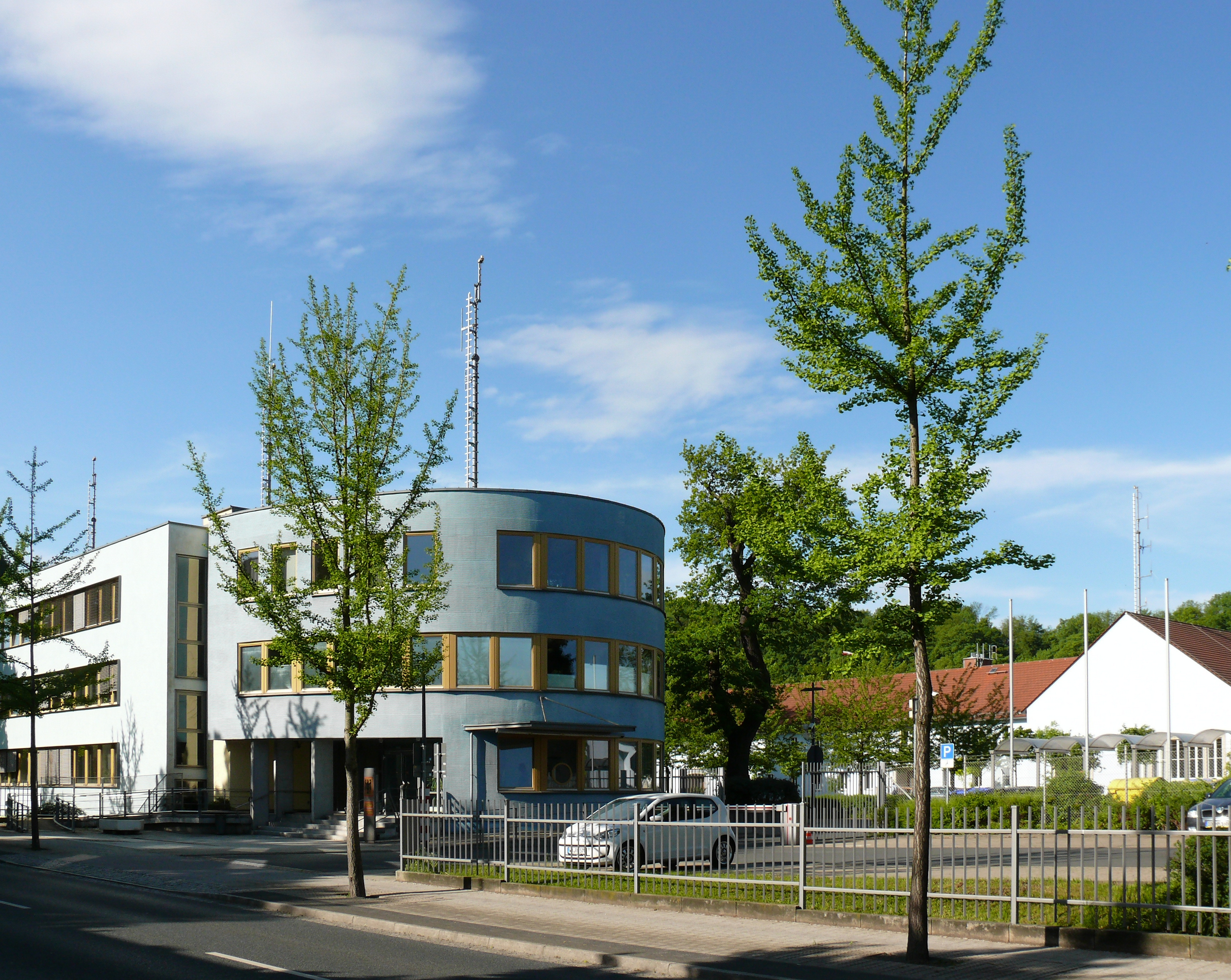 Directorate of the Federal Police Germany in Pirna